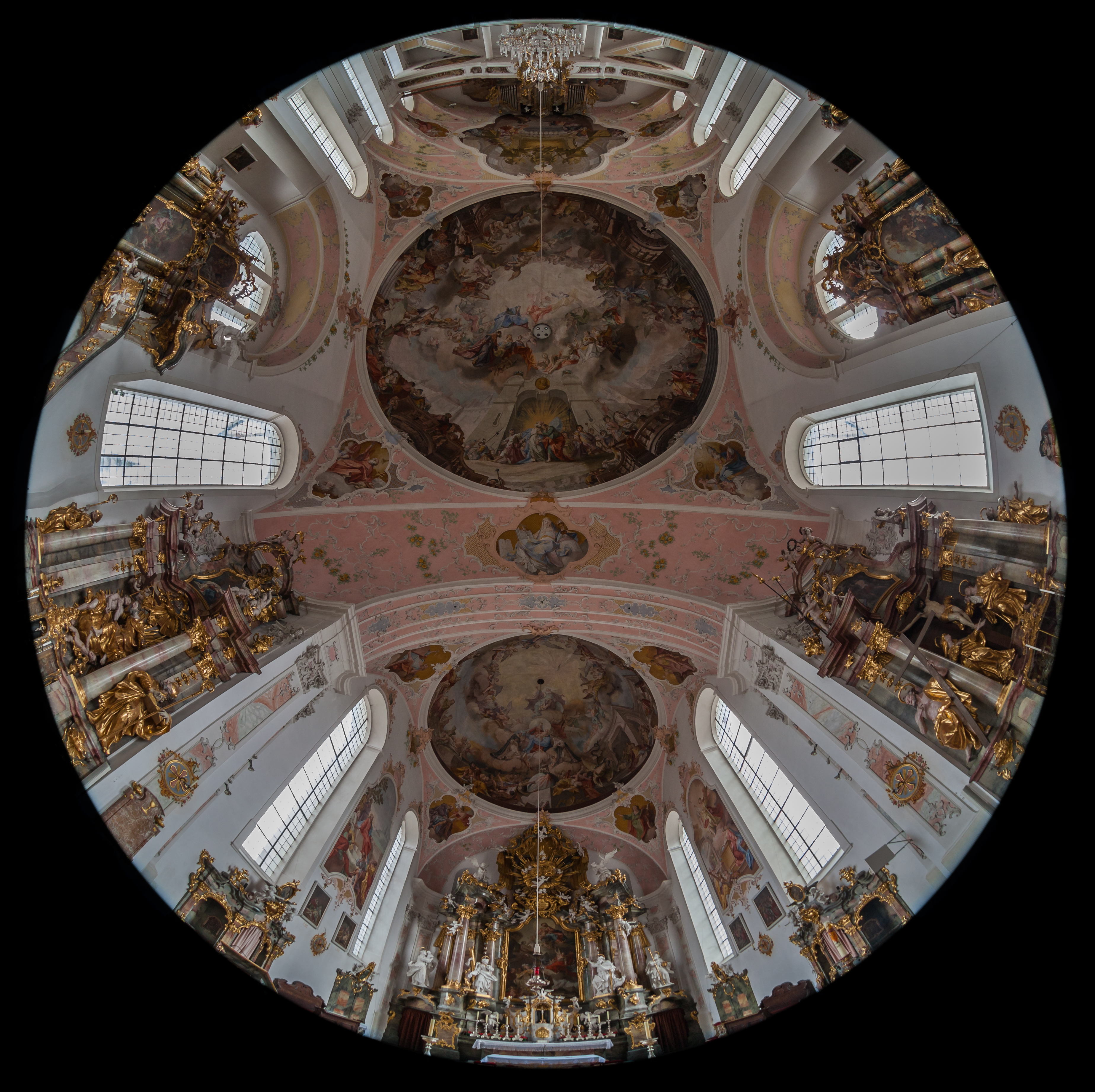 St. Peter and Paul church, Oberammergau, Bavaria, Germany